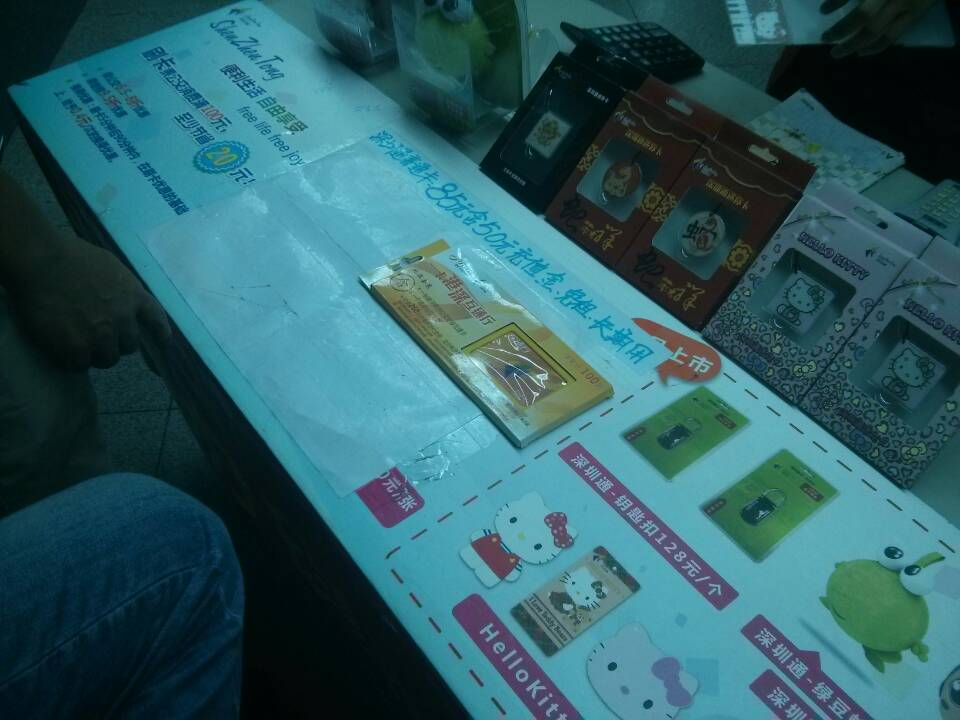 Hu Tong Xing Trade Edition Card (orange-yellow) at unpaid area of Luohu Station, Shenzhen Metro.